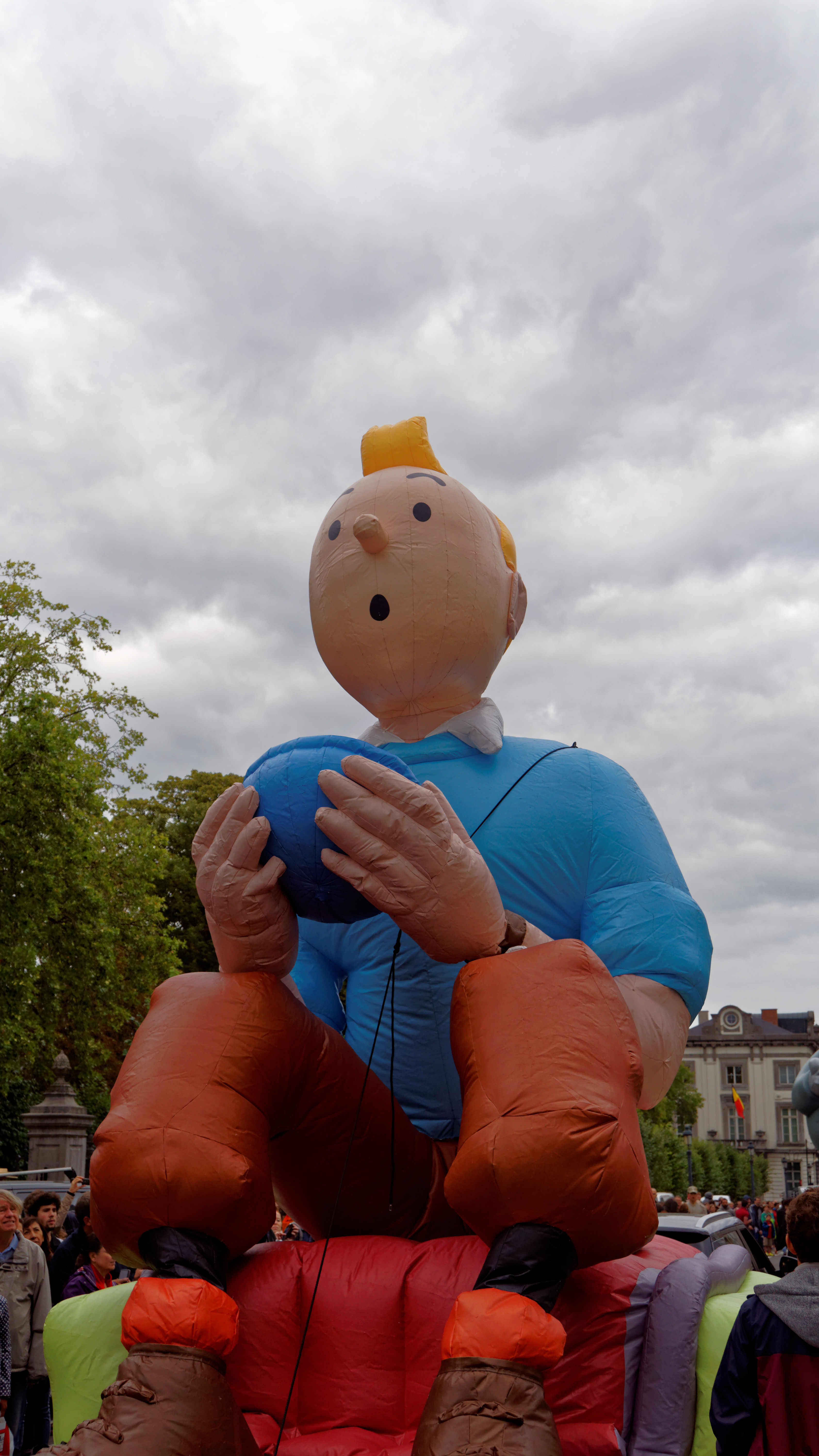 Balloon's Day Parade 2015 Journal Tintin Rally